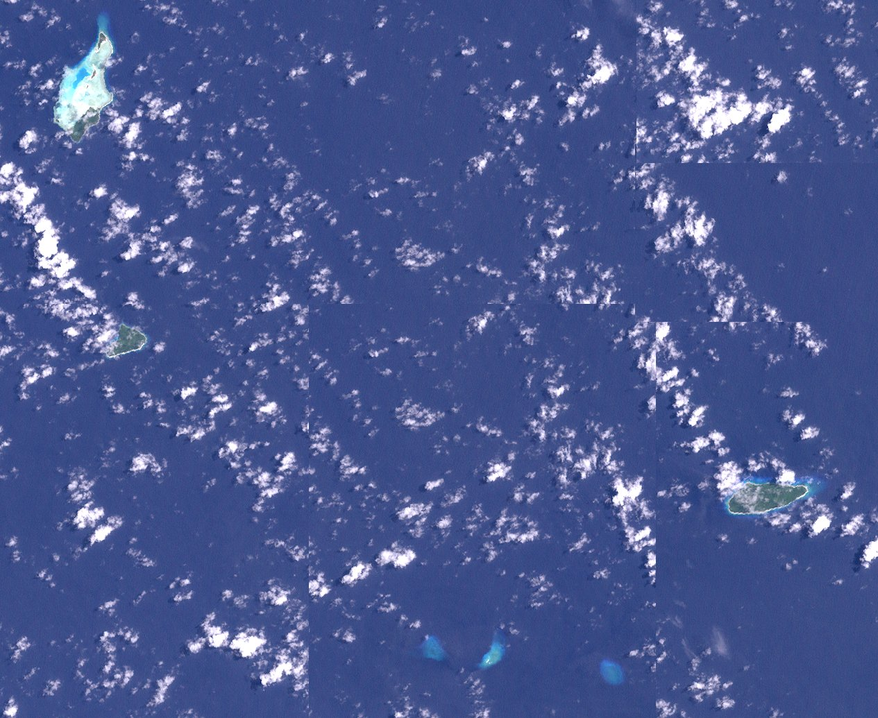 This image (Landsat 7) shows the Bonvouloir Islands, Louisiade Archipelago, Papua New Guinea.